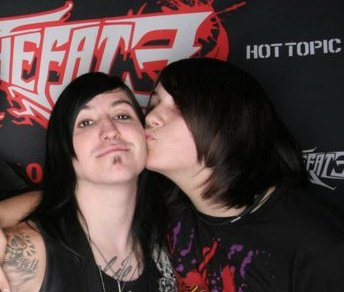 Craig at Great Lakes Mall in Mentor, Ohio 10/9/10